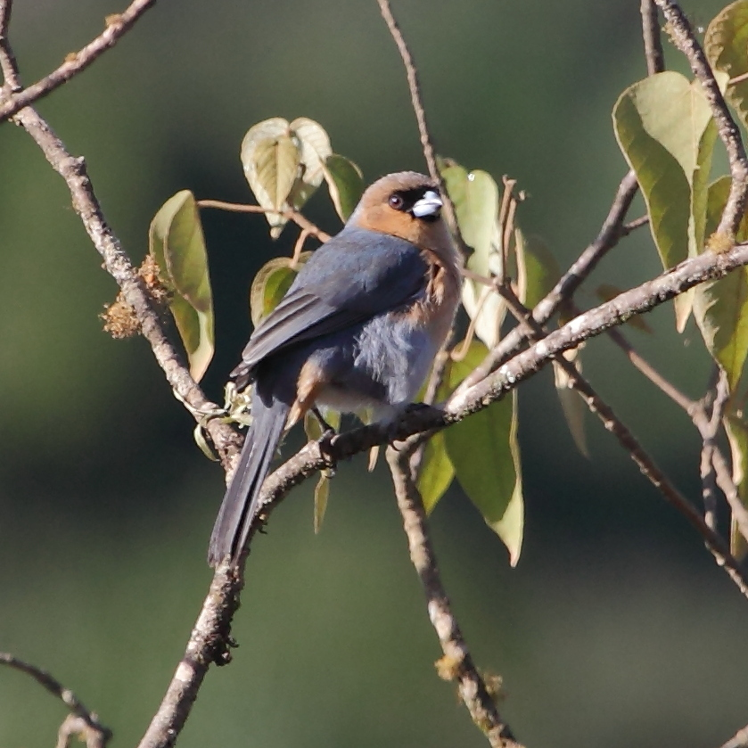 Cinnamon Tanager at Jacutinga - MG - Brazil